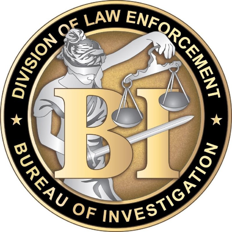 California Bureau of Investigation Logo